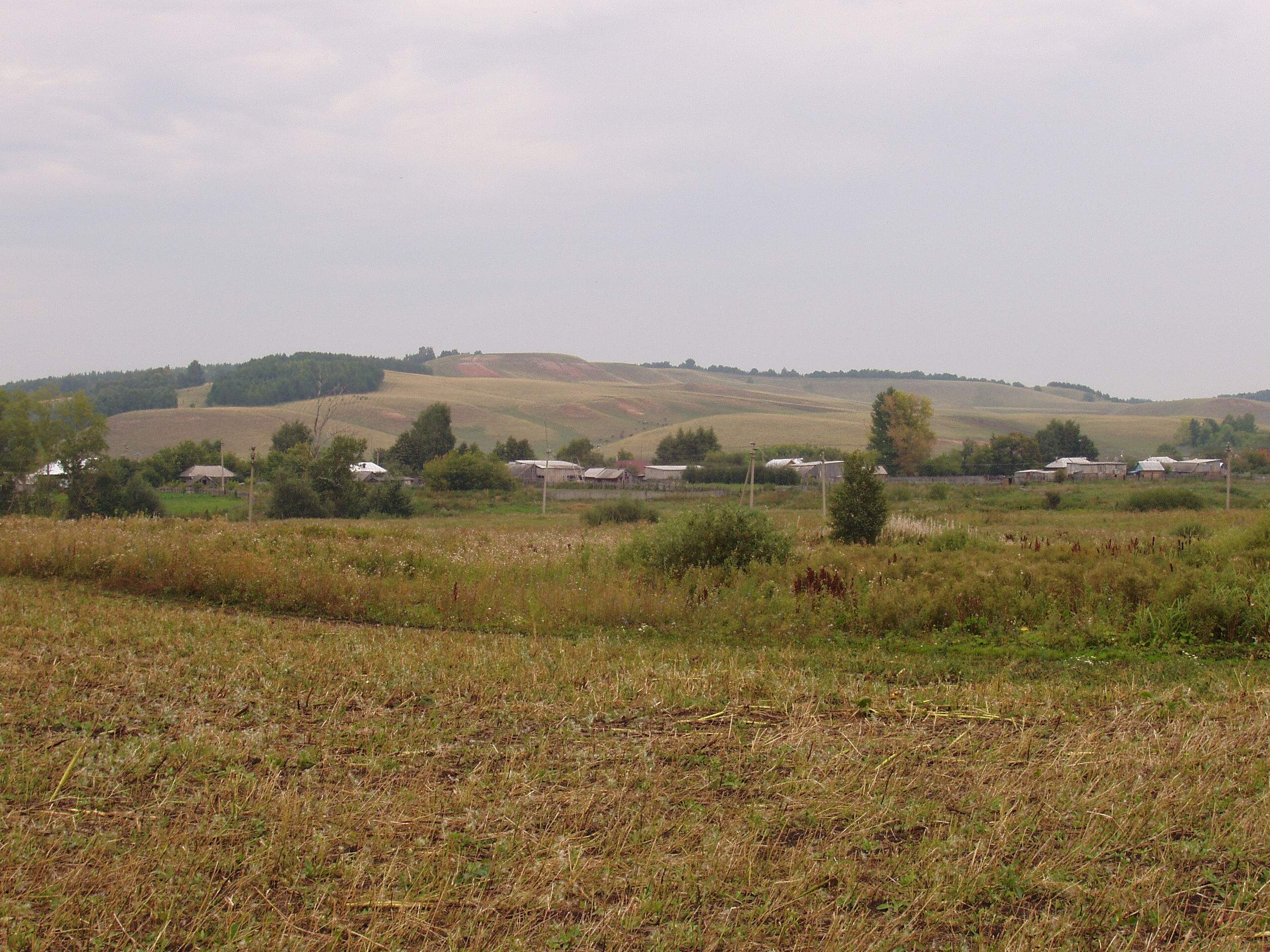 View to Bulgar village, Bashkorstan, Russia.